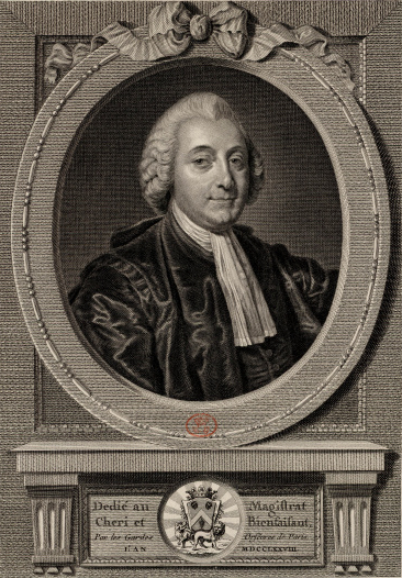 Jean-Charles-Pierre Lenoir, head of the Paris police. Engraving made for Louis-Philippe, Duke of Orléans, then King of France